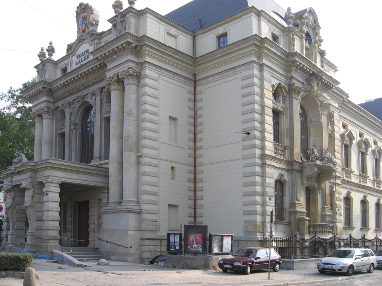 Wrocław, Poland - toy theater